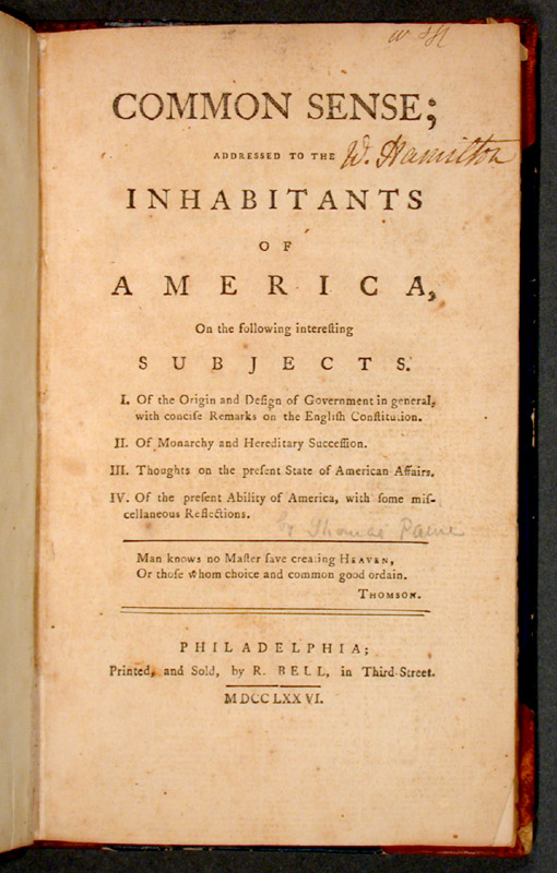 Scan of cover of Common Sense, the pamphlet. No alterations were made to the scan.